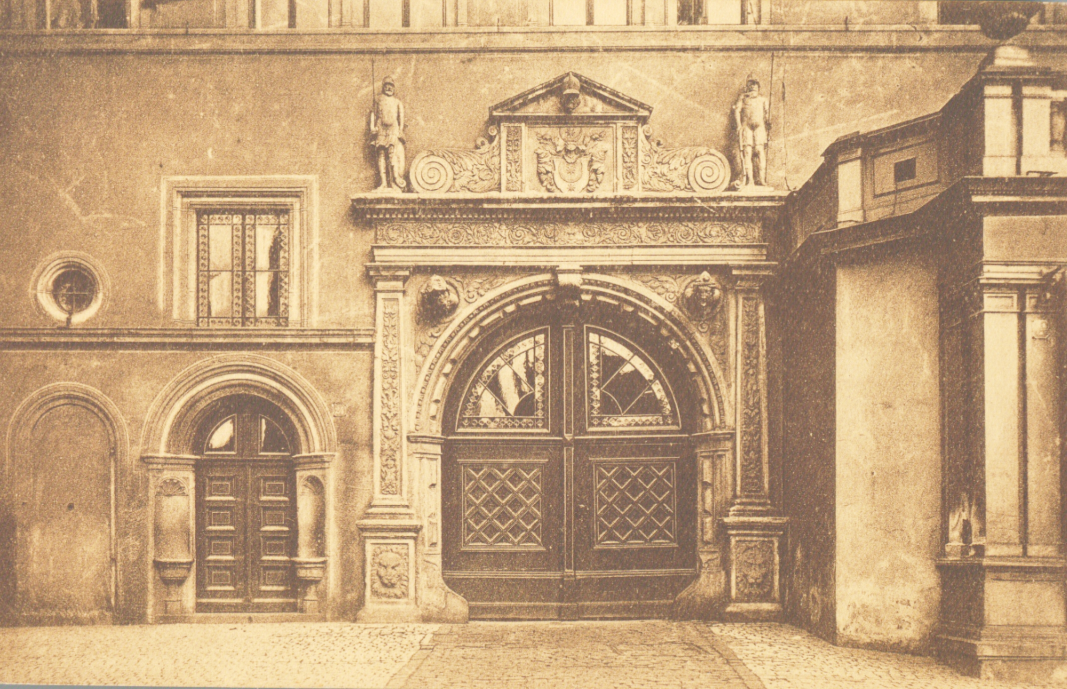 Portal of Ratswaage in Halle (Saale)